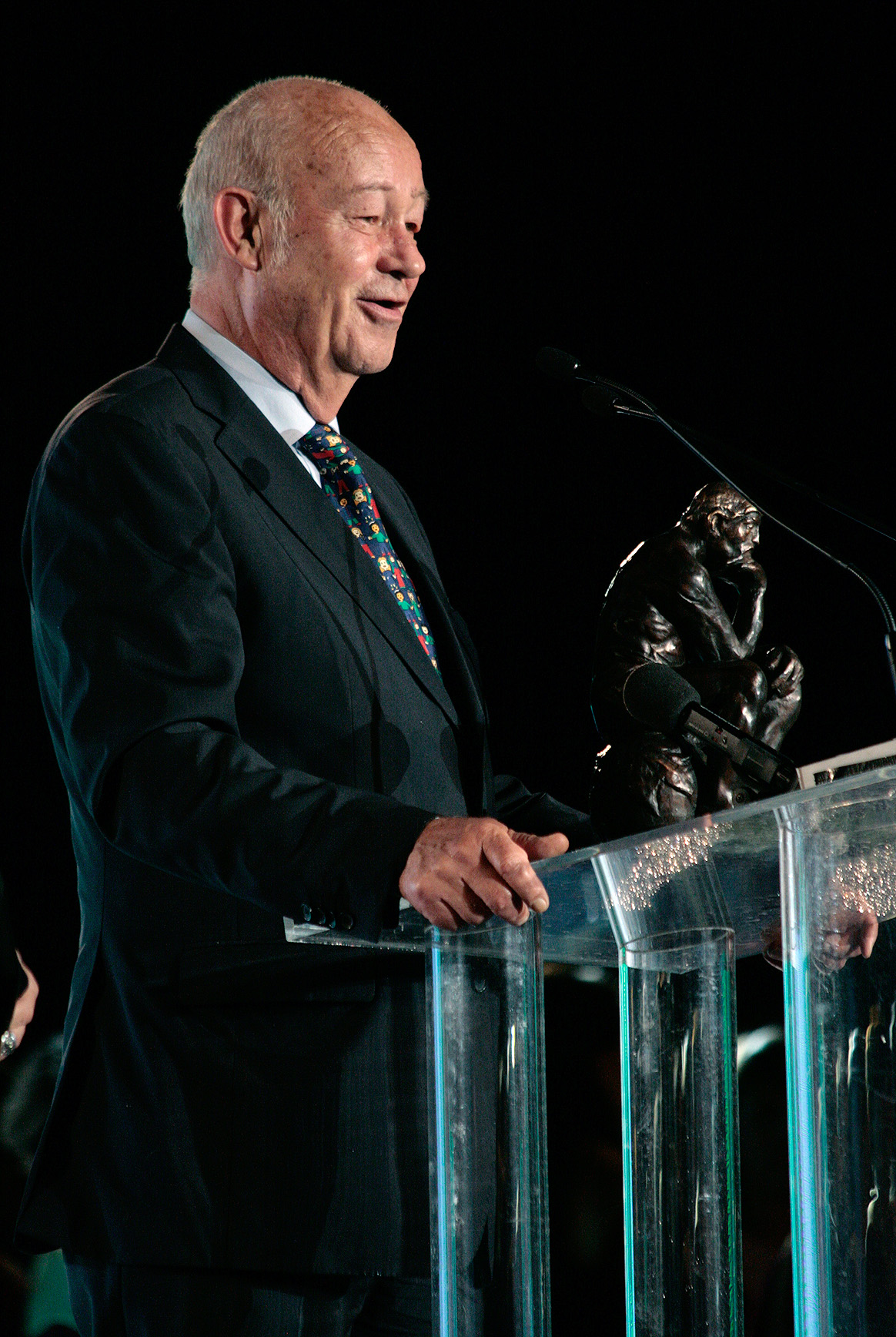 Helmut Kutin (SOS Children's Villages) during the Save the World Awards 2009 (Zwentendorf Nuclear Power Plant, Lower Austria).